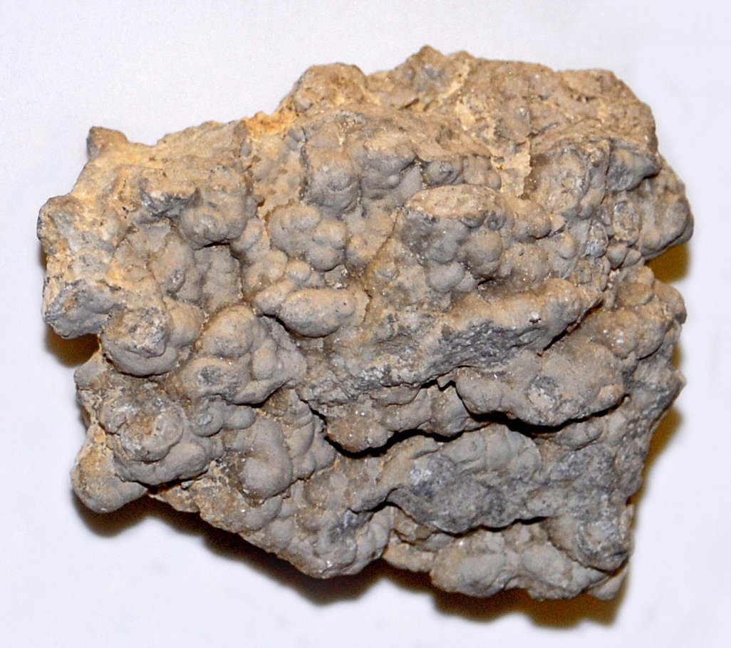 Crop of file in filename